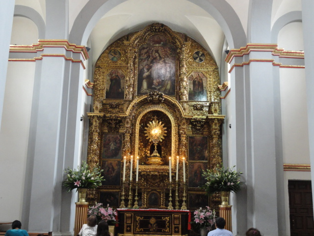 Central altarpiece of the Chapel of the Most Holy Sacrament, with Baroque altarpiece, and monstrance.